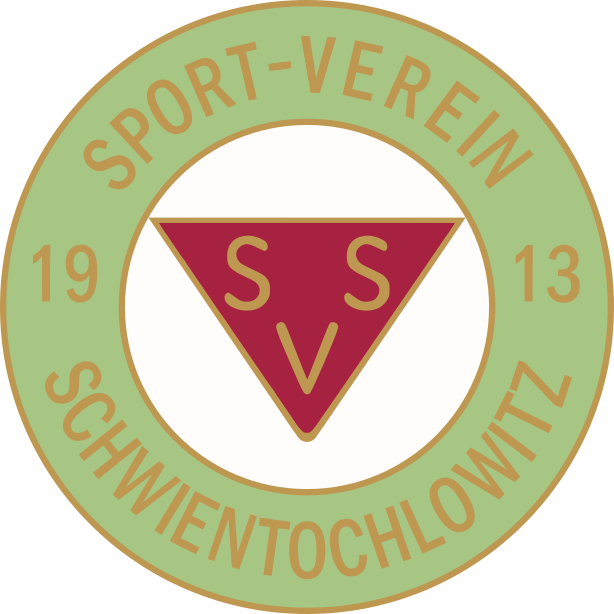 Logo of SV 1913 Schwientochlowitz, German football team.